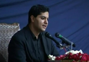 Payman Fattahi (Iliya M. Ramollah) founder and leader of Elyasin Community